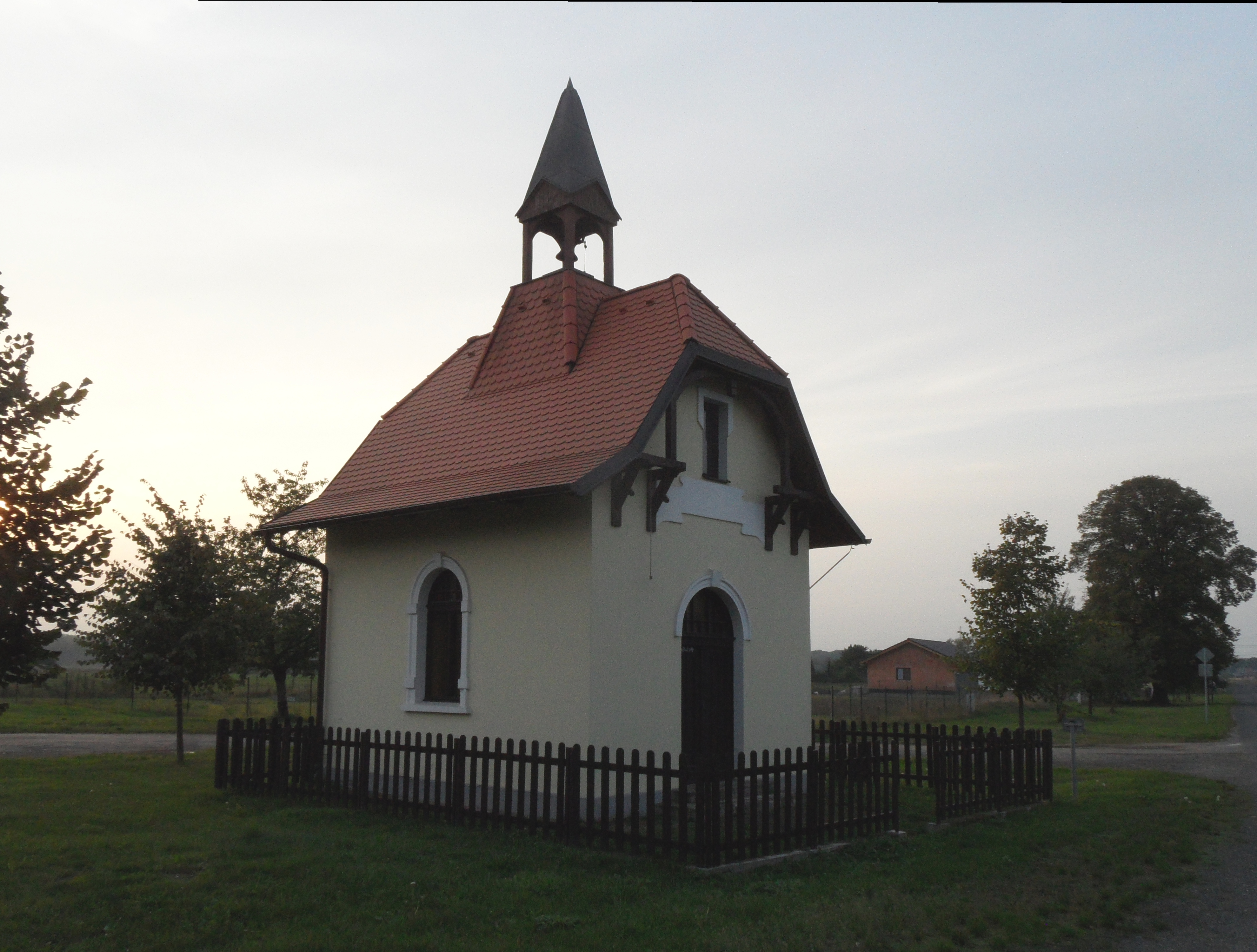 Hradišťko I a. Chapel of Assumption of the Virgin Mary, Kolín District, the Czech Republic.